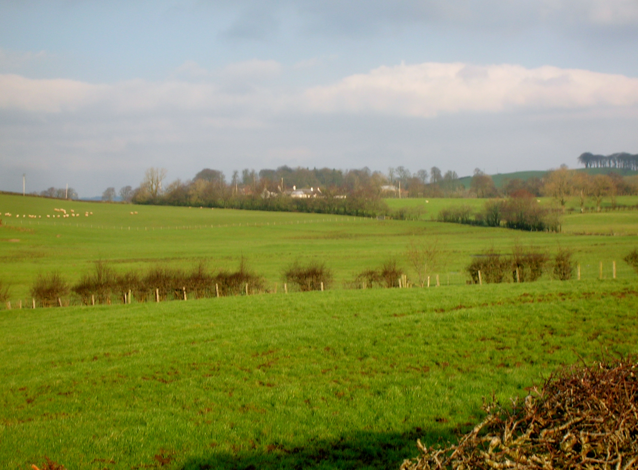 Whitehill Loch and curling pond sites from the footprint of Lochhouse Farm, East Ayrshire, Scotland.